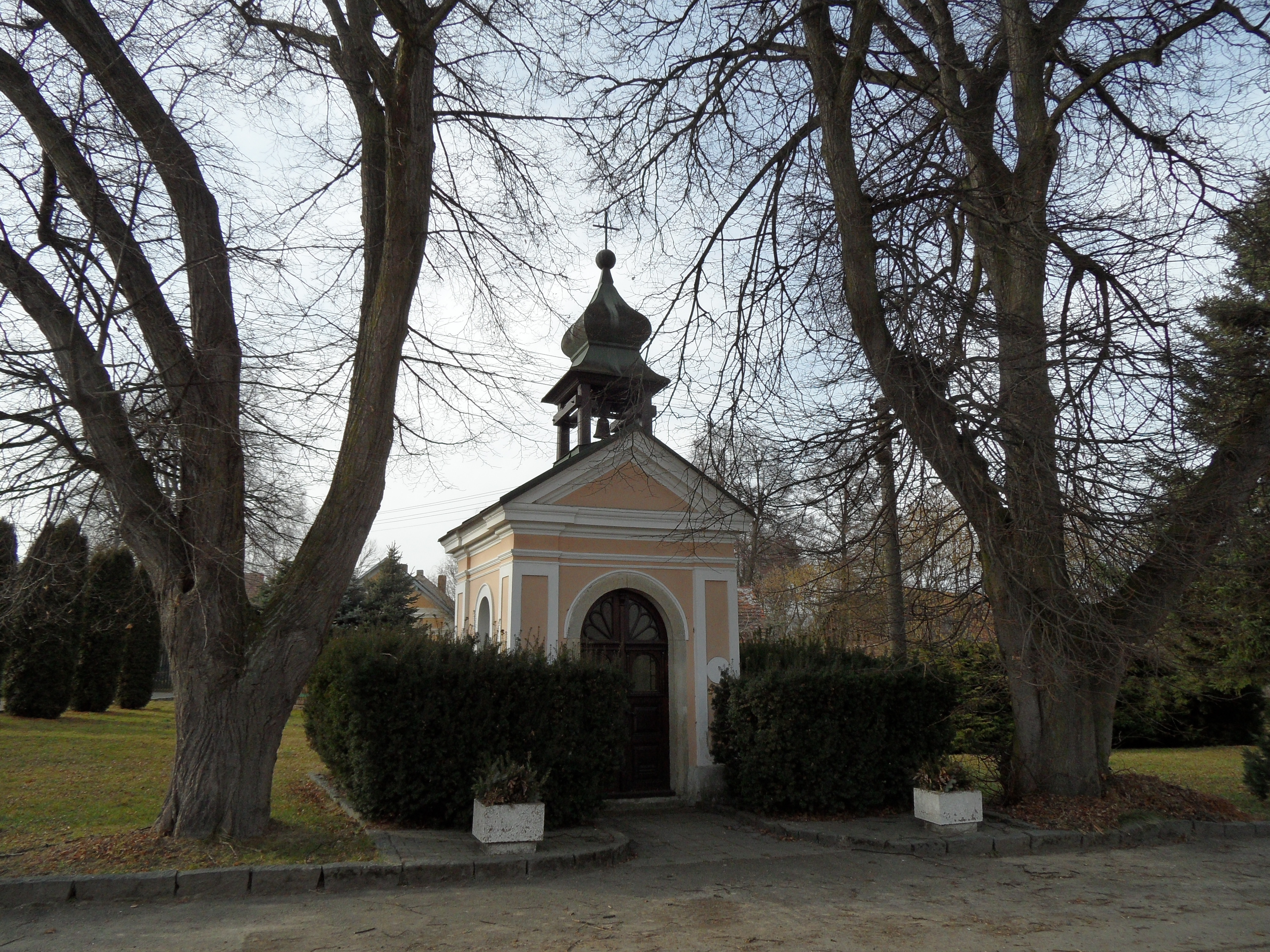 Malenovice (Suchdol) H. Chapel, Kutná Hora District, the Czech Republic.